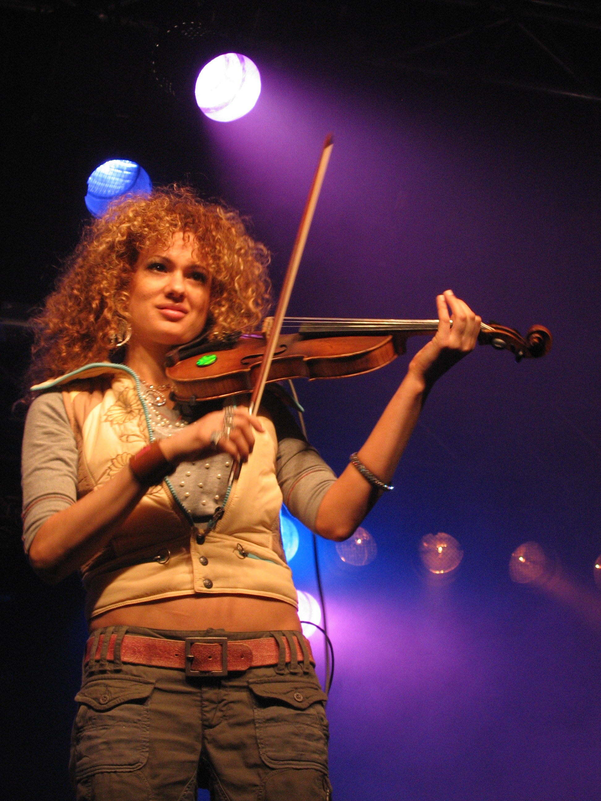 Miri Ben-Ari at a concert in Montréal, 2005